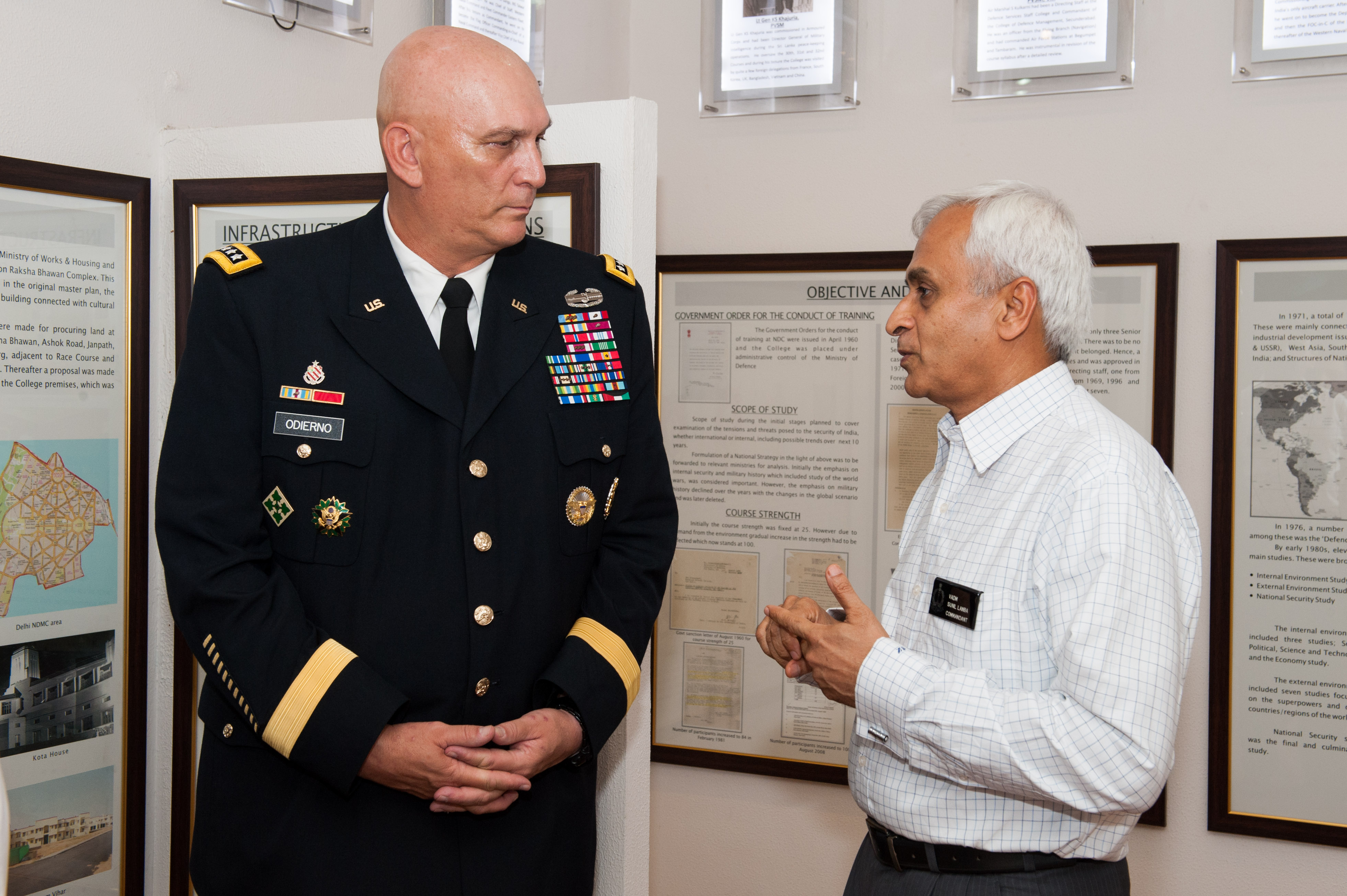 National Defense College Commandant Vice Admiral Sunil Lanba gives U.S. Army Chief of Staff Gen. Raymond T. Odierno a tour of the college's archive display during Odierno's visit to India to strengthen the relationship between the U.S. and Indian Army, in New Delhi, July 24, 2013.